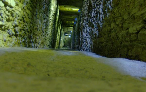 Dolmen la Pastora (Sevilla)